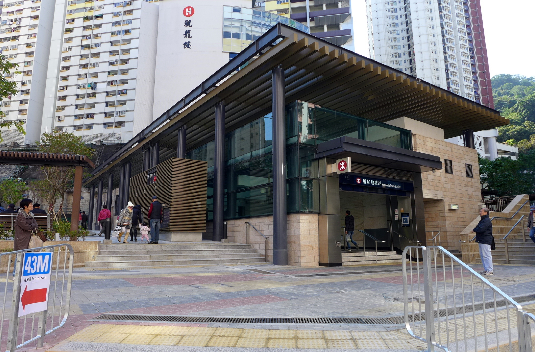 Kennedy Town Station Exit C